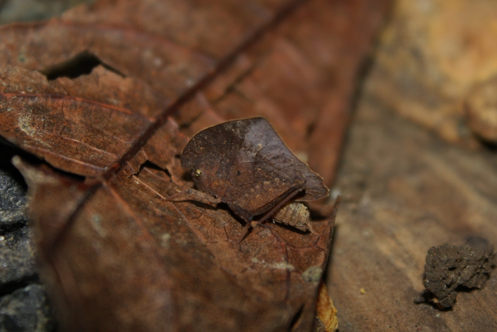 Found in Rajah Sikatuna National Park. Thanks to Sam Heads (below) for the identification.